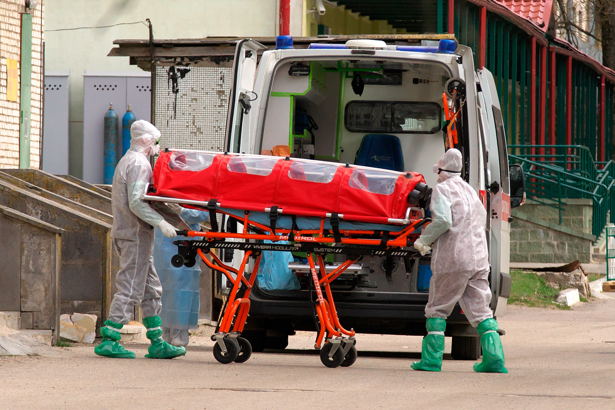 Plastic medical isolation box for transporting coronavirus patient near Vitebsk Regional Clinical Infection Hospital